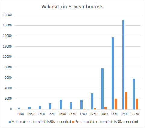 2016 update of a Wikidata query here: File:Female painters generally only recognized after 1850 in art historical sources.jpg